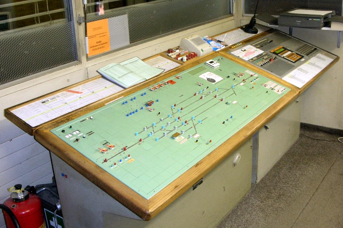 The long-standing control desk in the railway station Altstätten - still in use